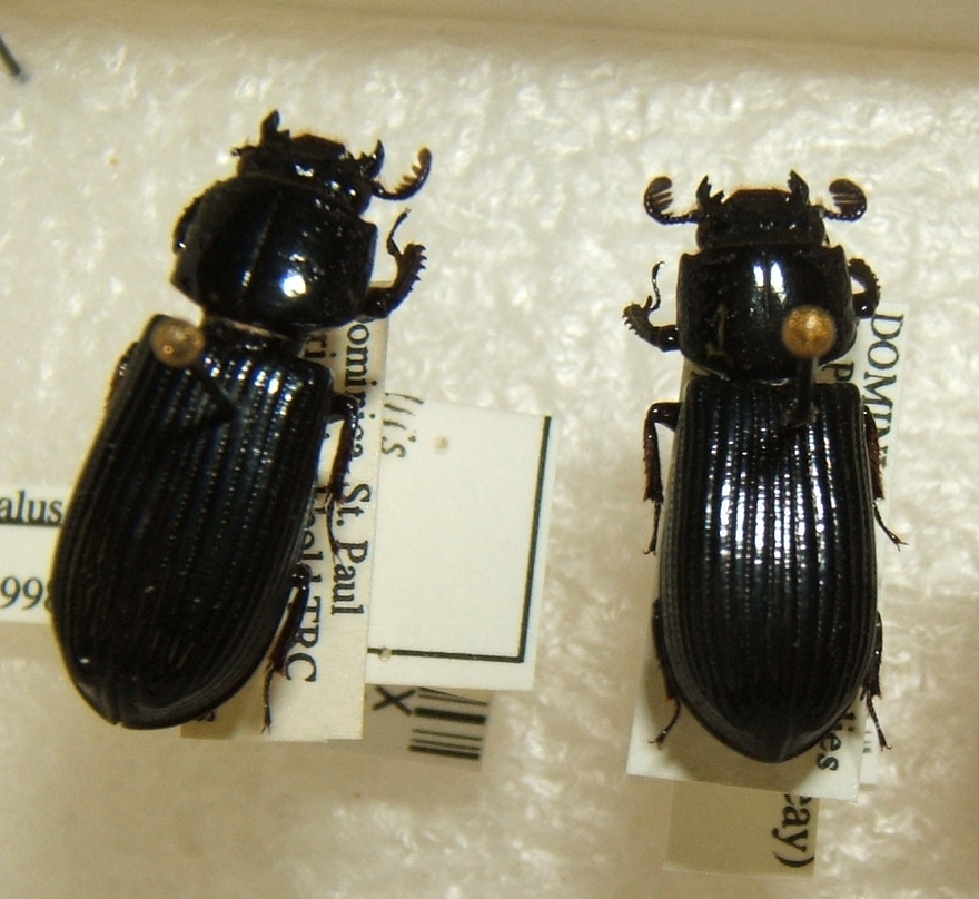 Spasalus crenatus adult taken by Shawn Hanrahan at the Texas A&M University Insect Collection in College Station, Texas.